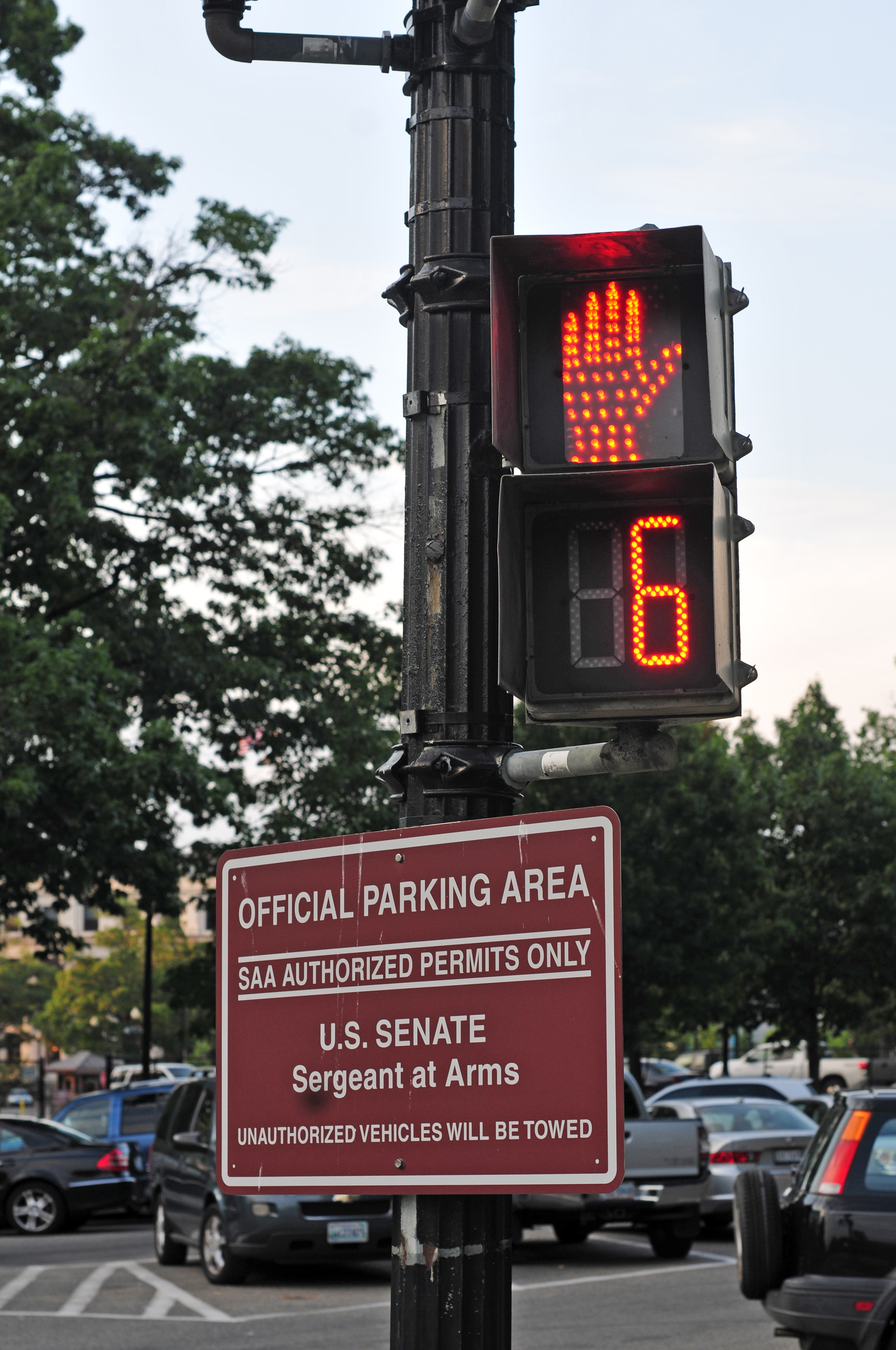 Pedestrian signals in Washington, D.C. The making of this work was supported by Wikimedia Austria. For other files made with the support of Wikimedia Austria, please see the category Supported by Wikimedia Österreich.